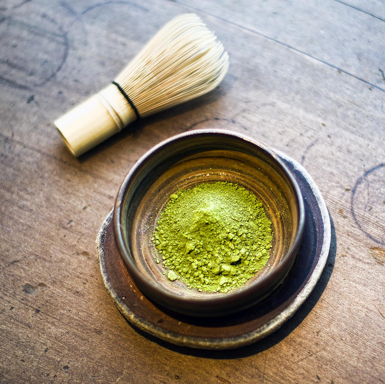 Samovar Tea House